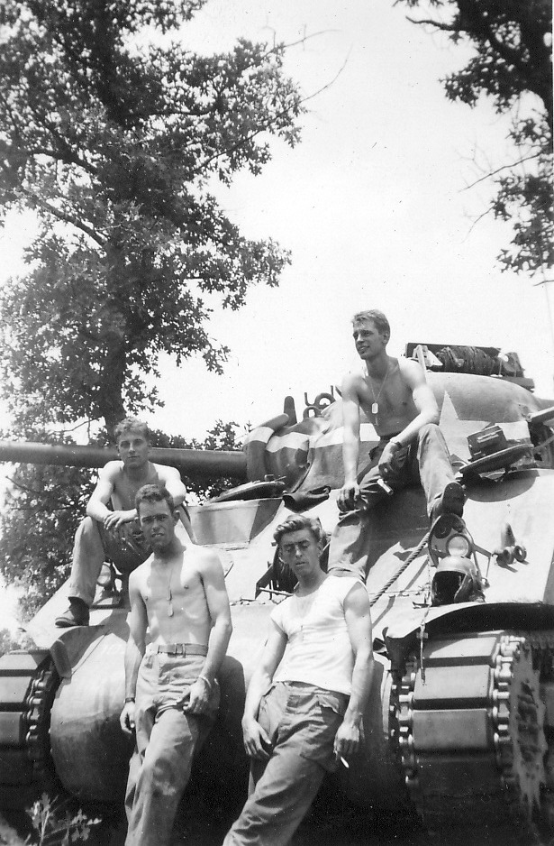 tankers